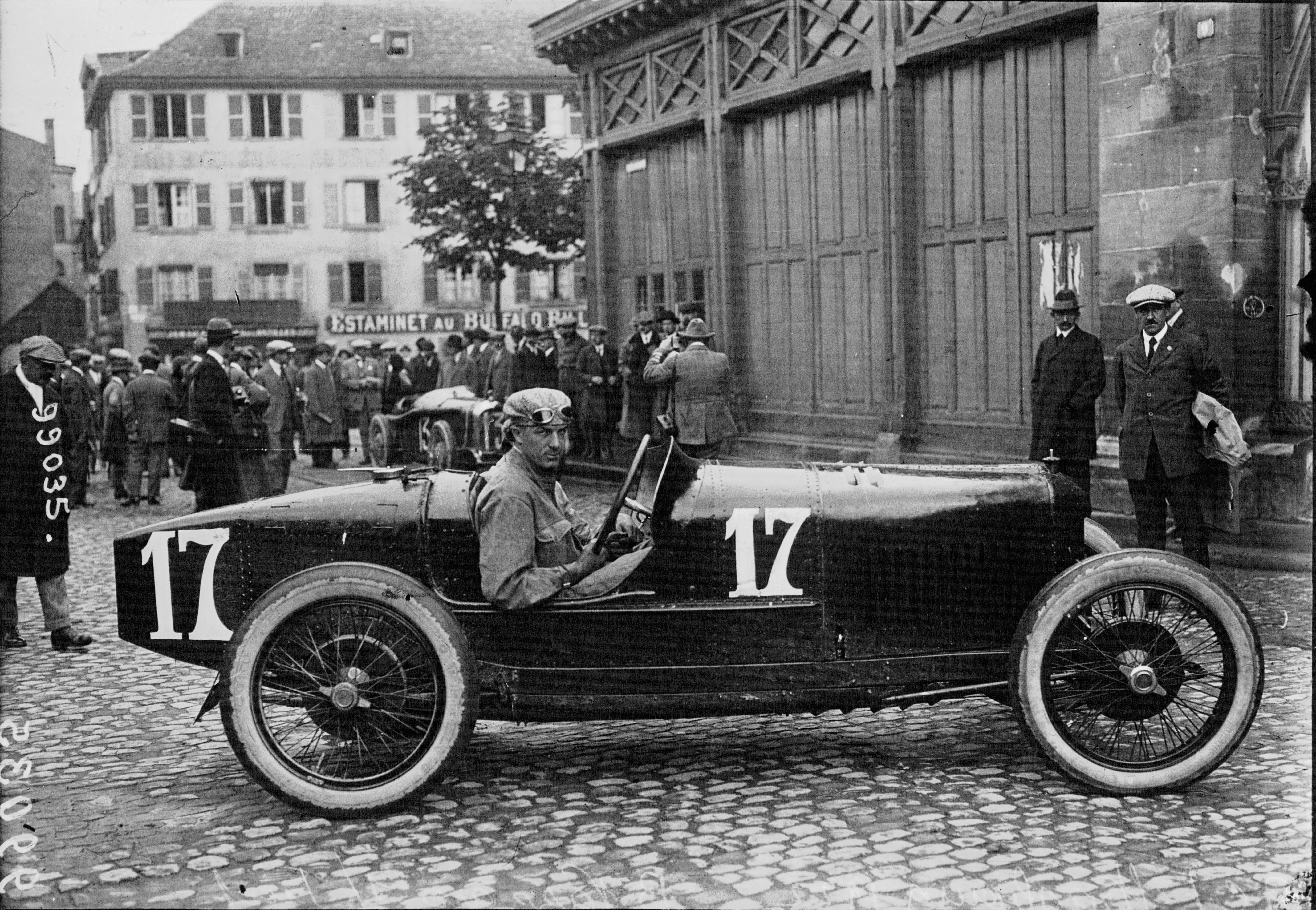 Biagio Nazzaro at the 1922 French Grand Prix